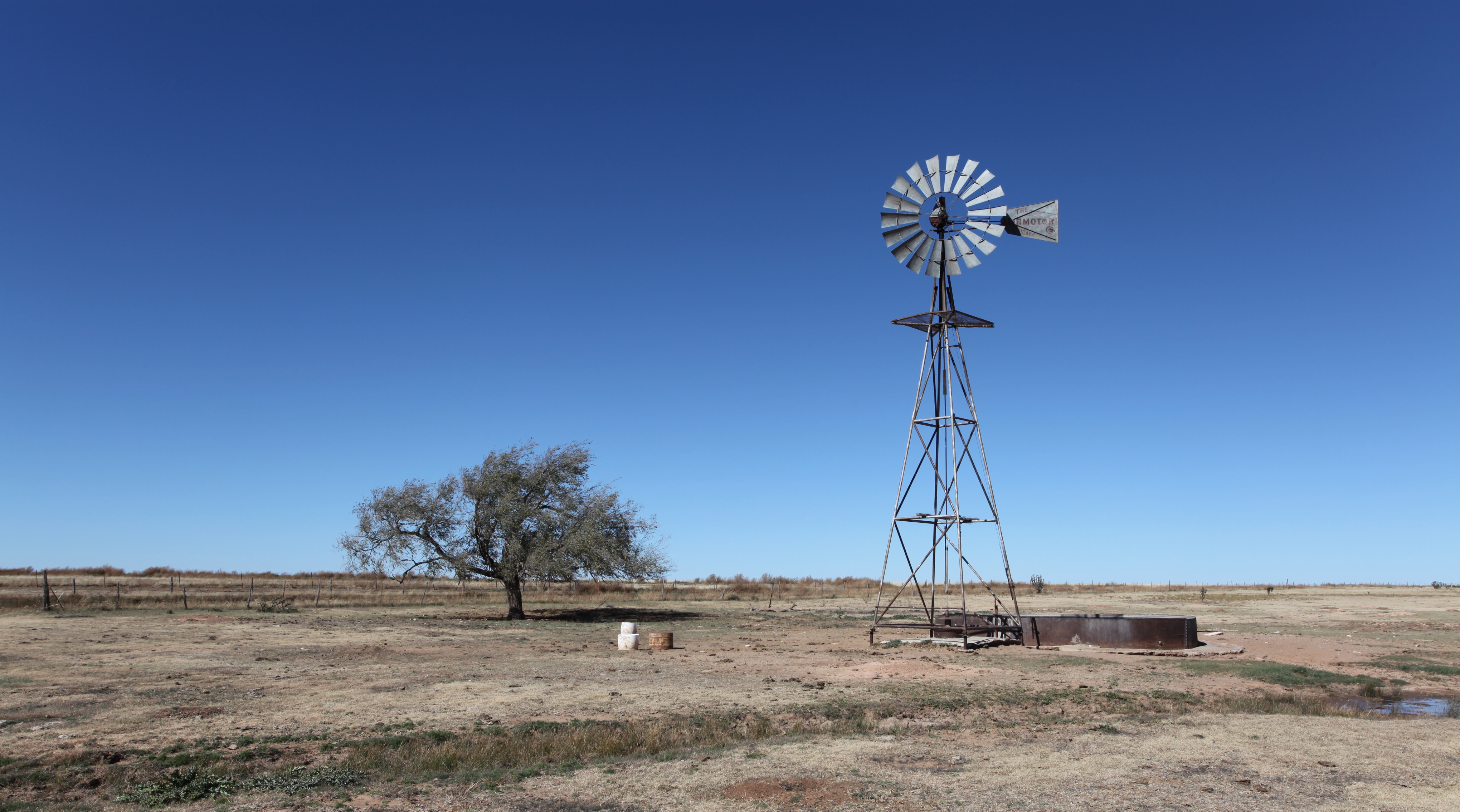 Windmill and wind-shaped tree located 5.5 miles (8.8 km) north of the small community of Bellview, Curry County, Eastern New Mexico.